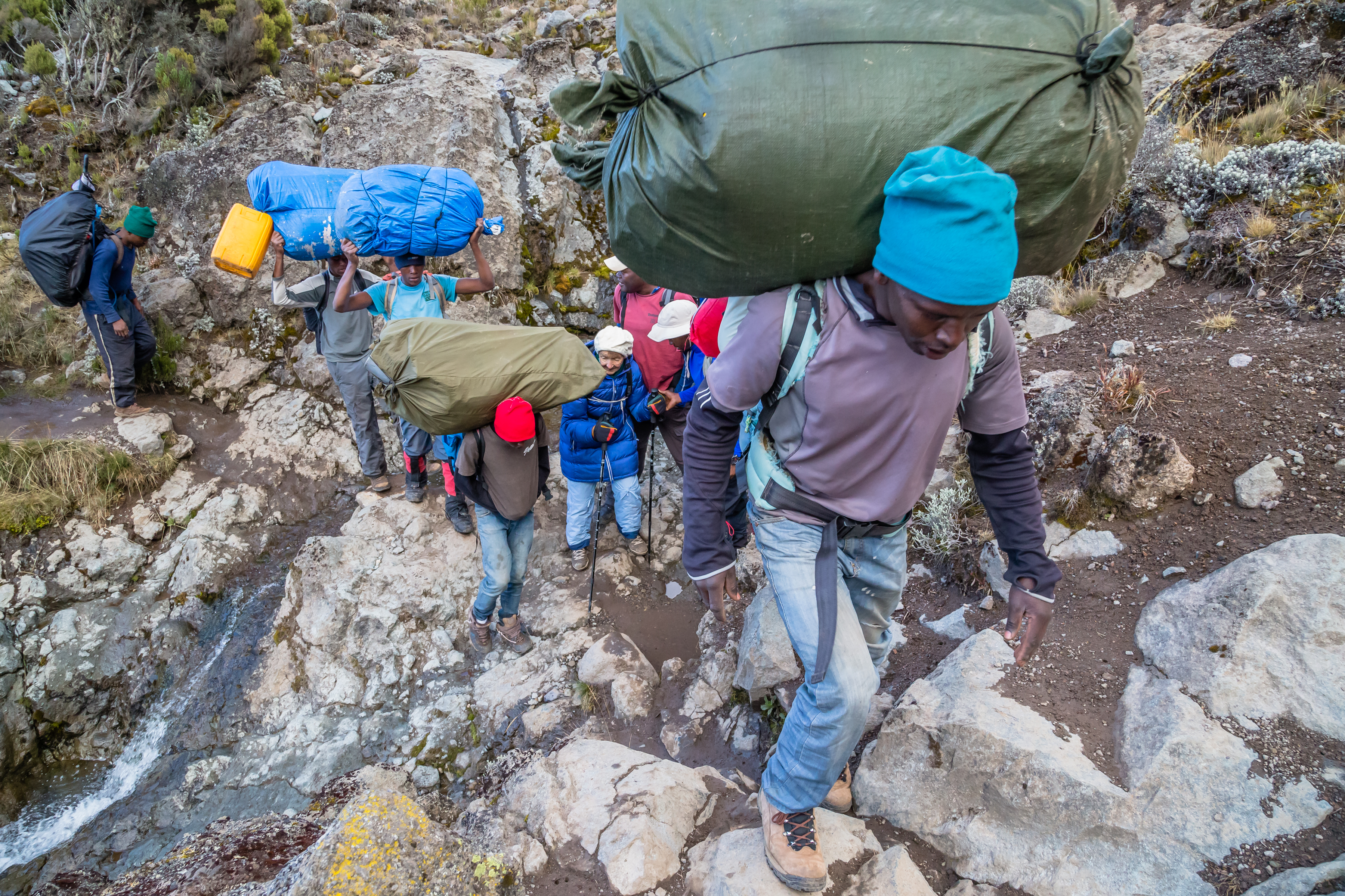 This is an image of "African people at work" from Tanzania